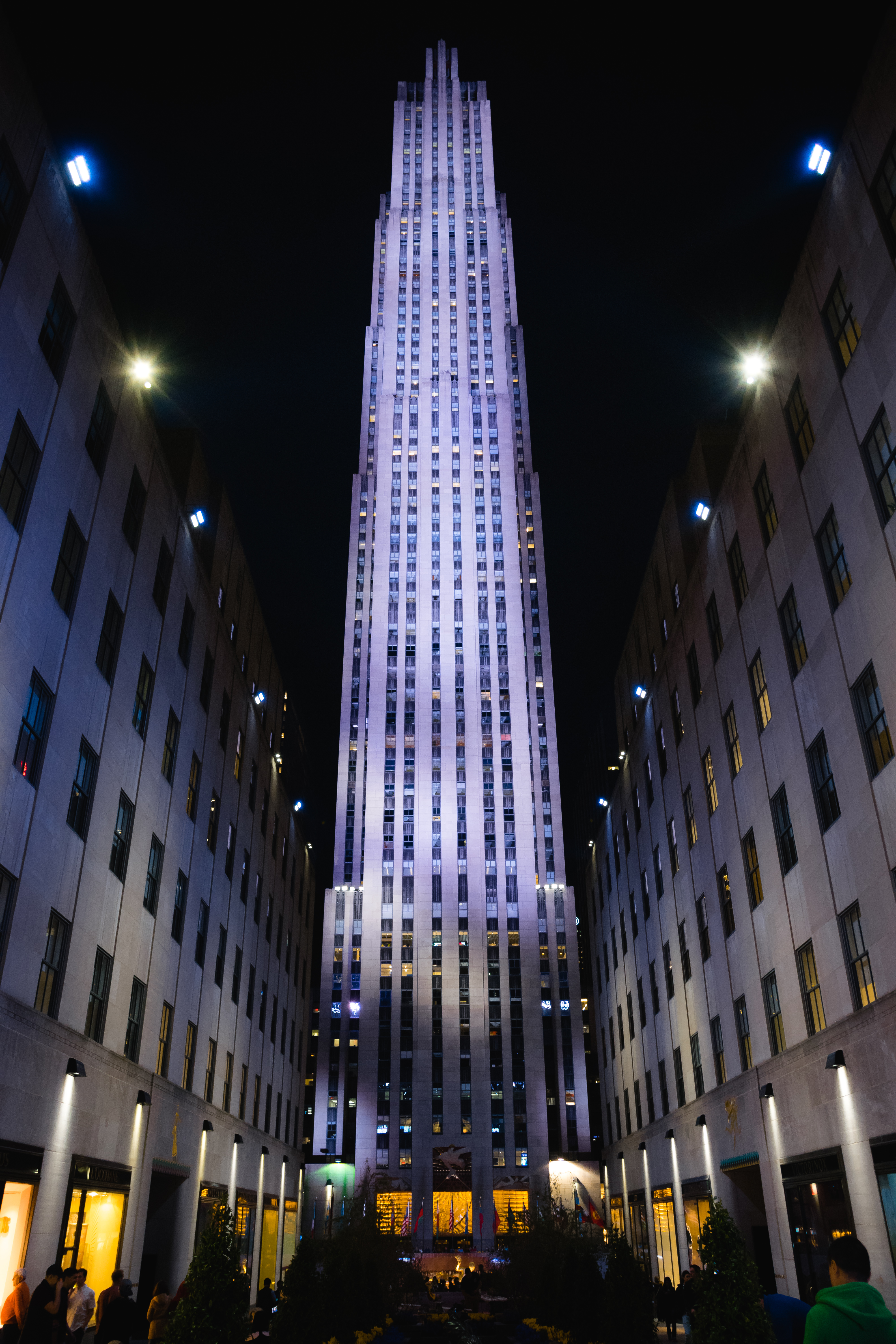 30 Rockefeller Plaza in Midtown Manhattan